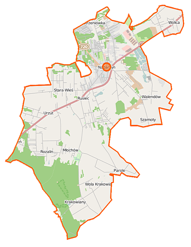 Map of Gmina Nadarzyn, PolandThis map of Nadarzyn (gmina) was created from OpenStreetMap project data, collected by the community. This map may be incomplete, and may contain errors. Don't rely solely on it for navigation.